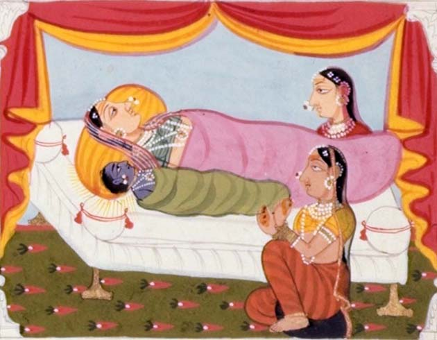 This image shows the birth of Rama in the royal palace at Ayodhya. His mother was Queen Kausalya, the first wife of the King Dasaratha who ruled the land of Koshala in northern India.